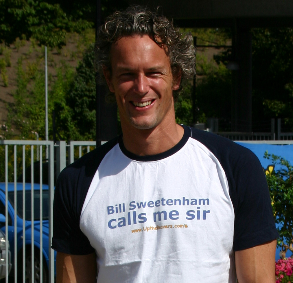 Swimmer Mark Foster pictured at the 2005 European Masters Swimming Championships in Stockholm, Sweden. Foster is wearing an exclusive t-shirt from masters swimming website